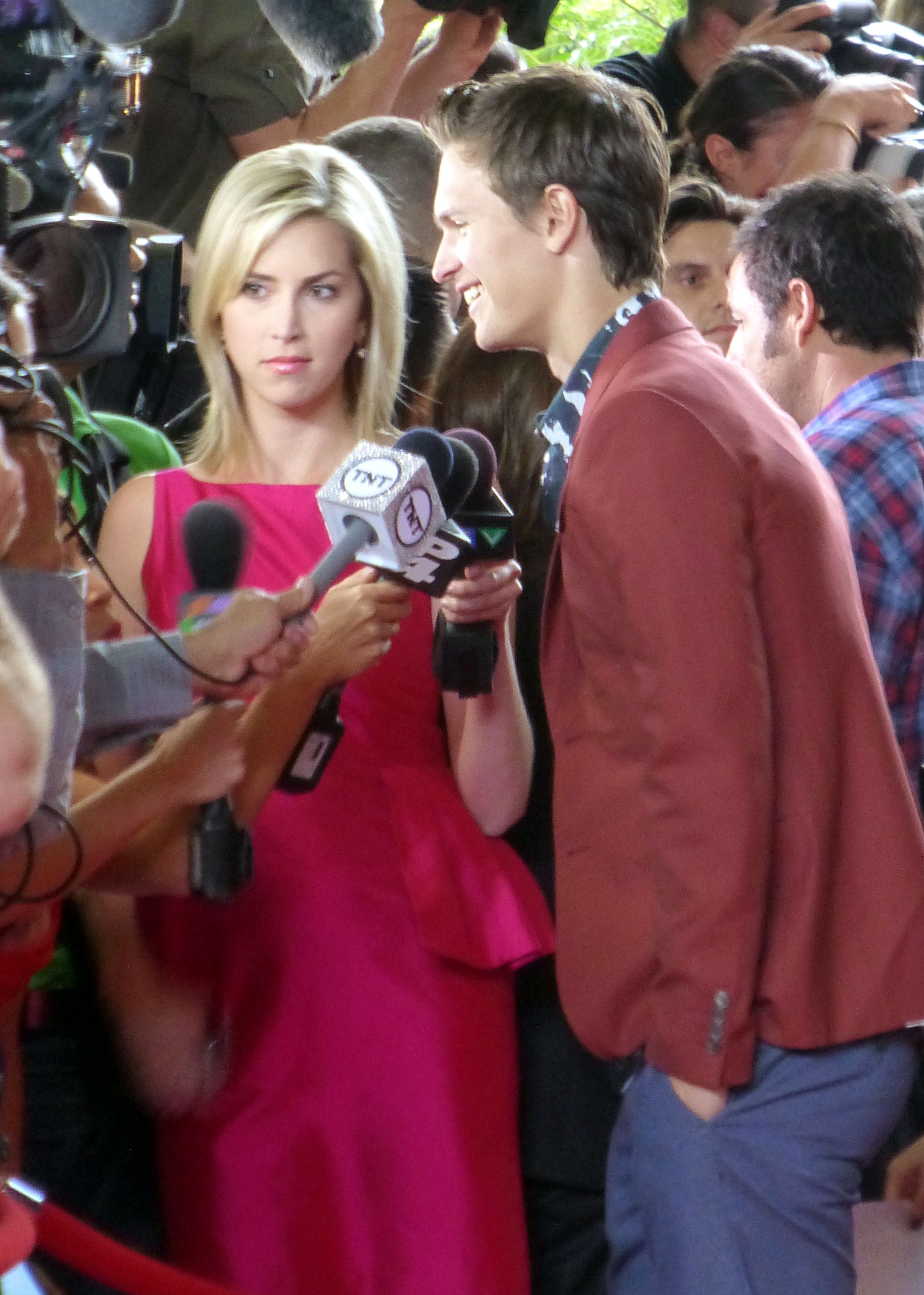 Ashley Rowe and Ansel Elgort at the premiere of Men, Women, and Children, 2014 Toronto Film Festival